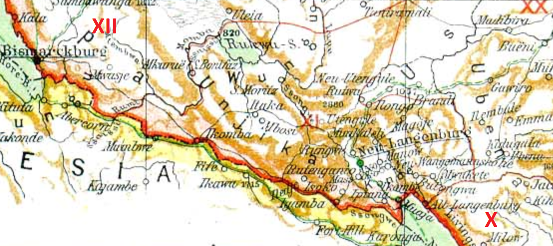 A map of the Bezirk Langenburg in German East Africa Kiswahili: Ramani ya Mkoa wa Langenburg katika Afrika ya Mashariki ya Kijerumani